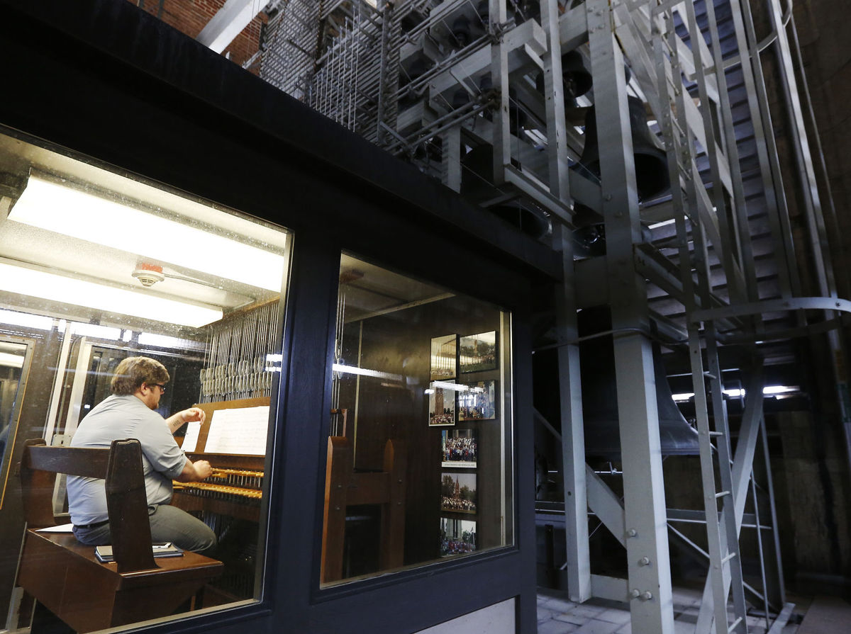 Austin Ferguson, Carillonneur of the Mayo Clinic, plays the 56-bell Rochester Carillon at the Clinic campus in Rochester, Minnesota.